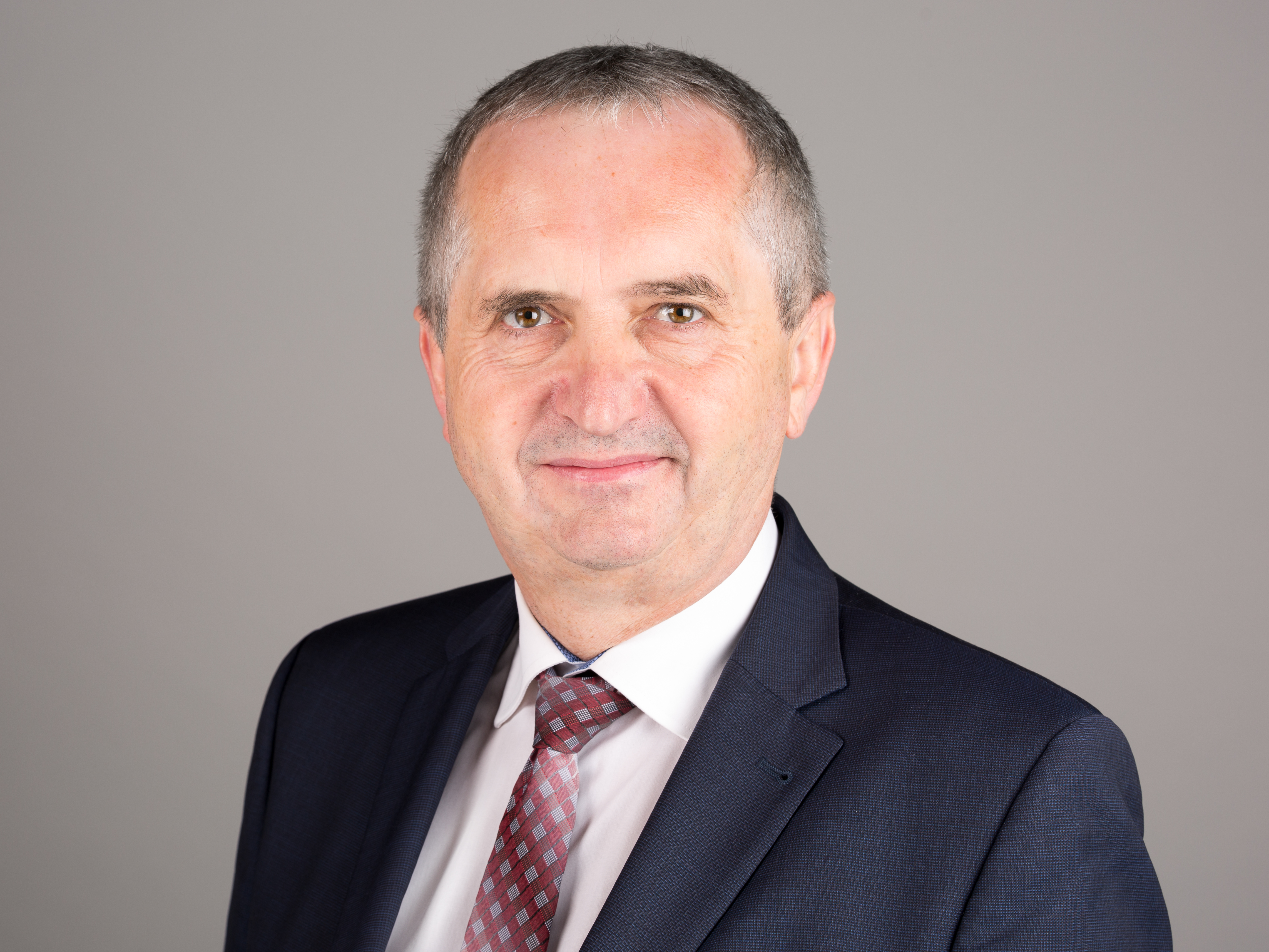 Thomas Schmidt, CDU, Member of the Parliament of the Free State of Saxony